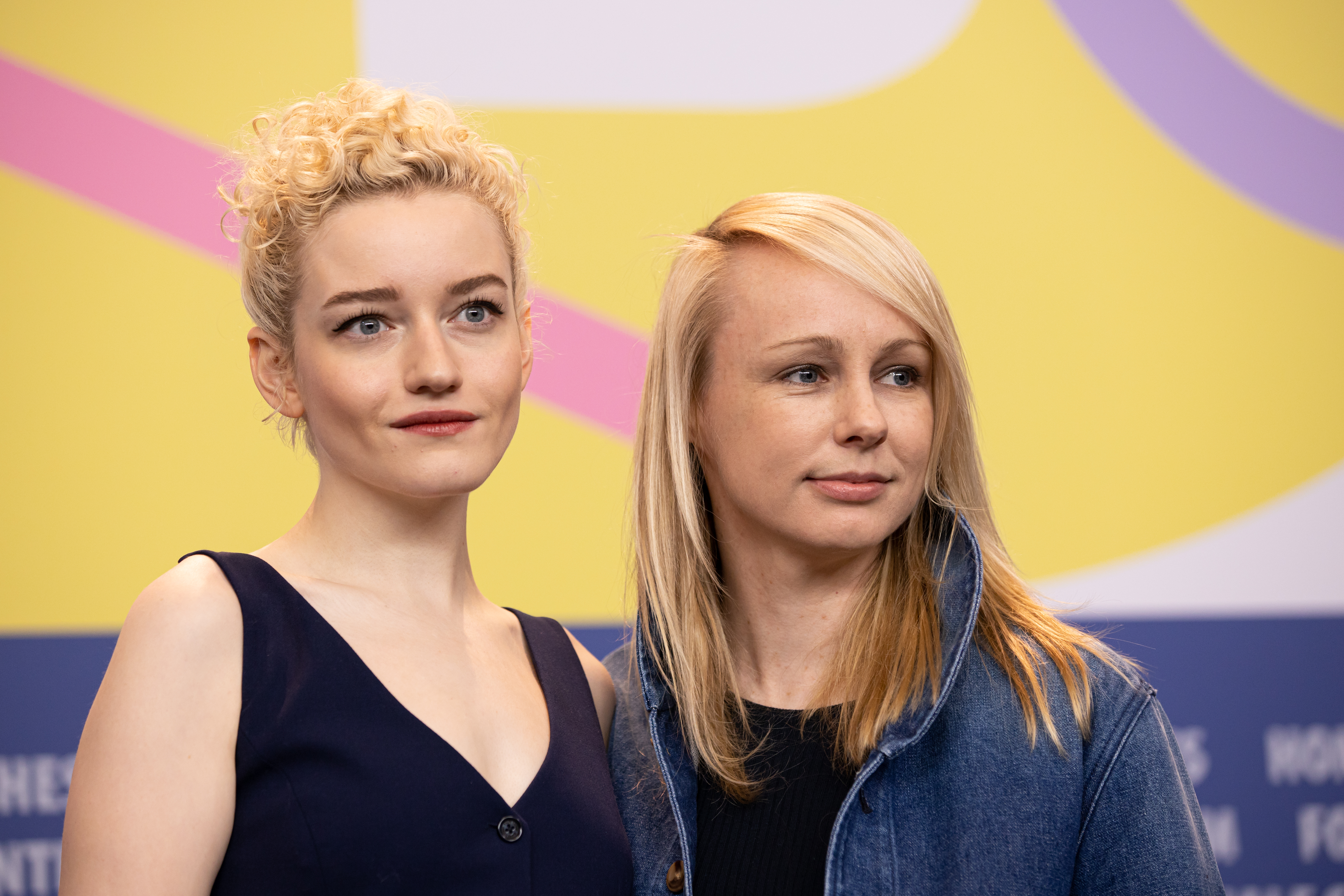 Actress Julia Garner at the Berlinale 2020